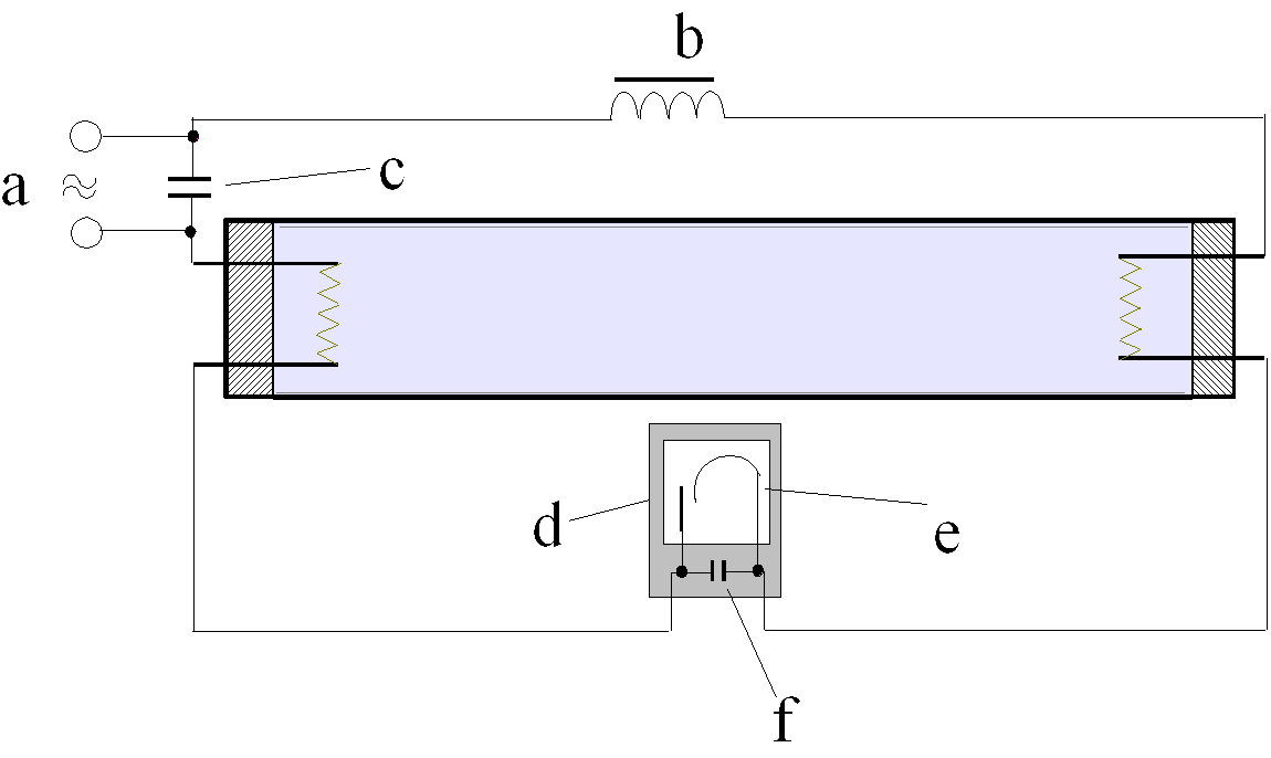 Wiring of fluorescent lamp, a - input, b - inductor, c - compenzate capacitor, d - starter, e - bimetal electrode, f - capacitor